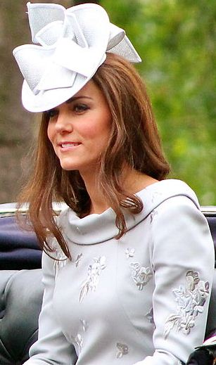 Duchess of Cambridge & Duchess of Cambridge, June 2012